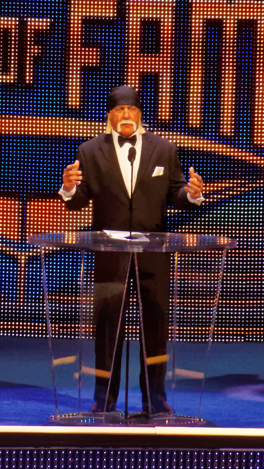 WWE Hall Of Fame 2015